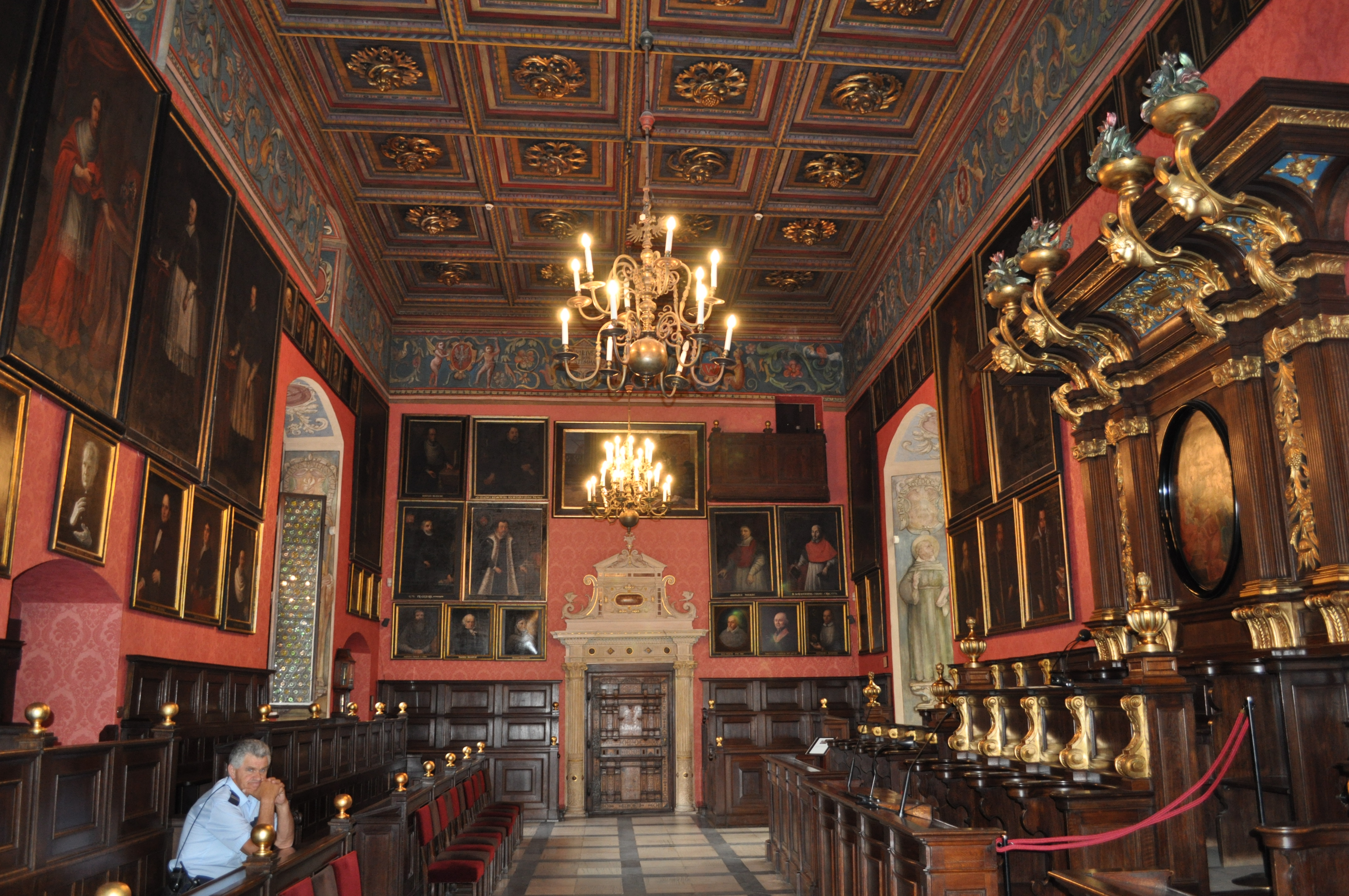 Krakow (Poland). Jagiellonian University. Collegium Maius. Assembly Hall